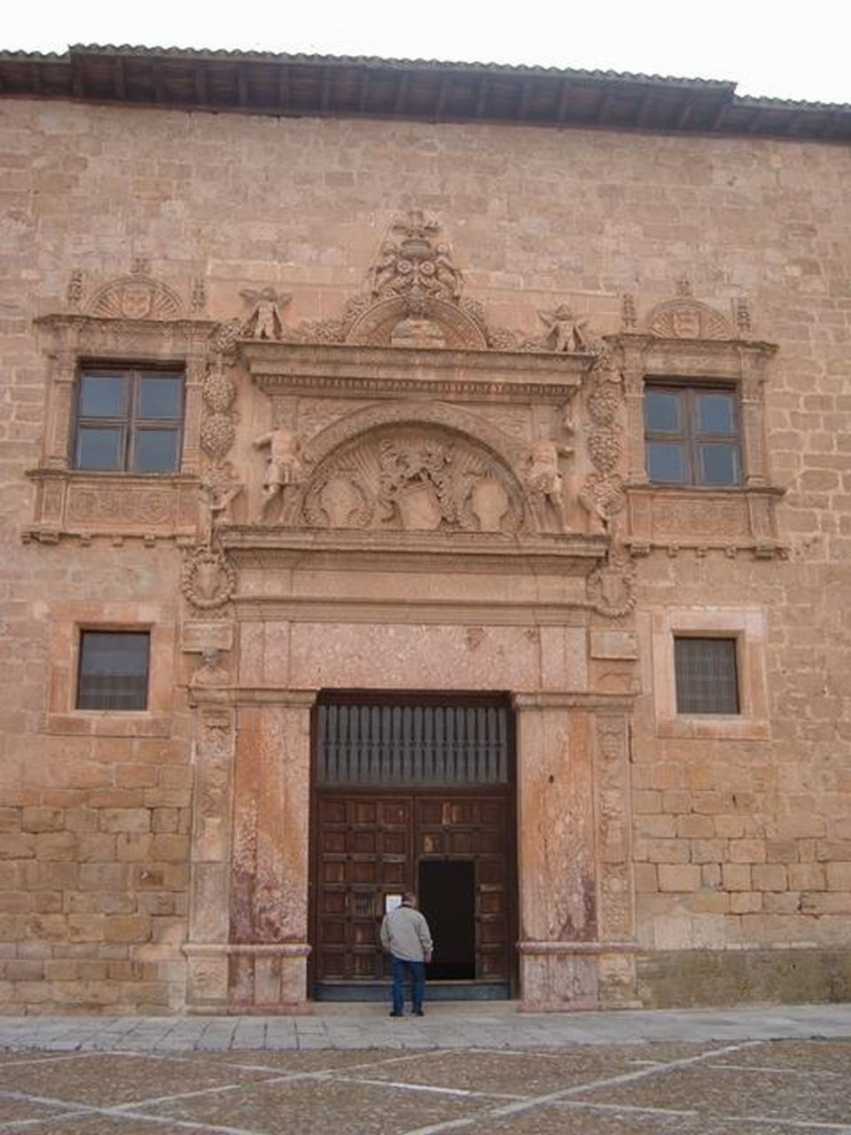 Palace of Avellaneda. Renaissance (16th century). Peñaranda de Duero, province of Burgos, Spain.Doorway of Palacio Avellaneda